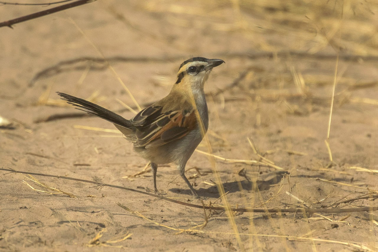 Black-crowned Tchagra - Gambia 17_CD5A3359